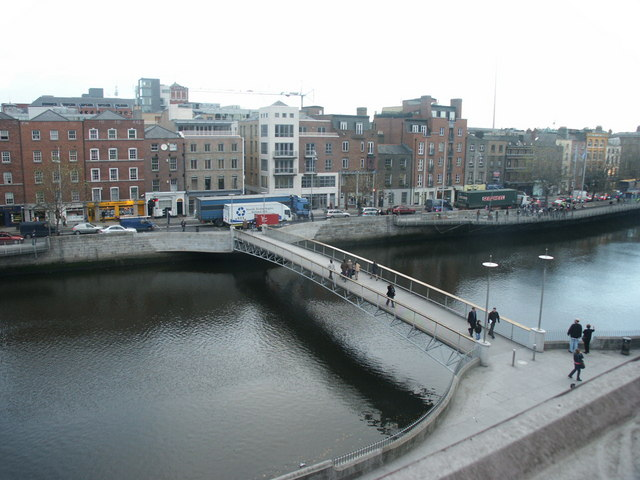 Millennium Bridge and north and south quays of River Liffey in Dublin, Ireland. Geograph image #446300